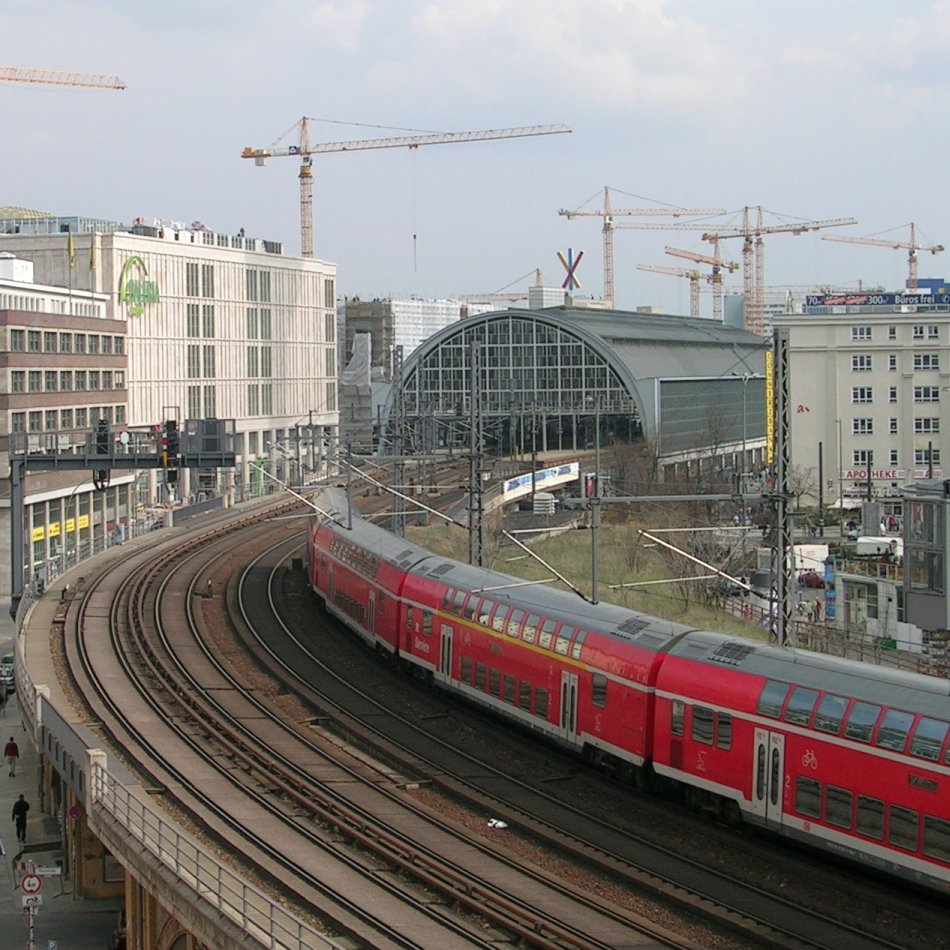 The Berlin Alexanderplatz railway station, view from the west. In the foreground a Deutsche Bahn RegionalExpress.